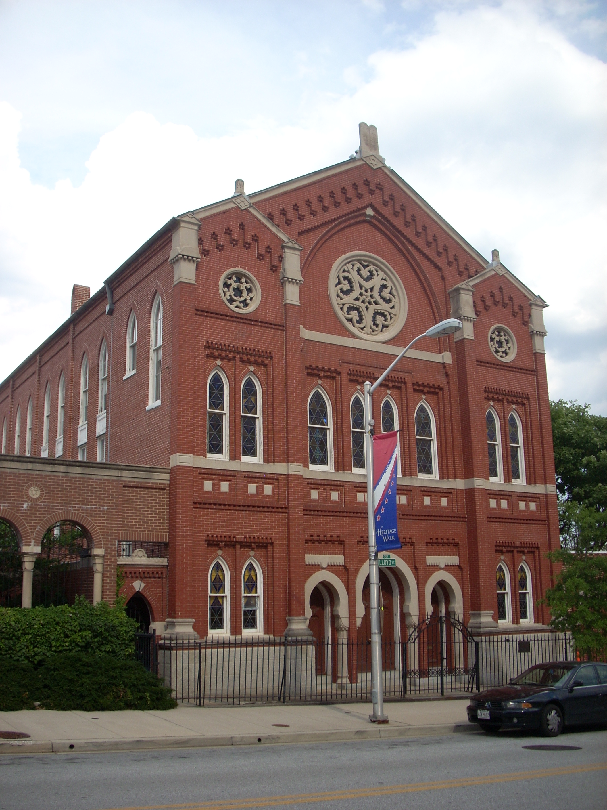 Chizuk Amuno Synagogue, 27 Lloyd St., Baltimore City, Maryland Object location39° 17′ 24″ N, 76° 36′ 04″ W